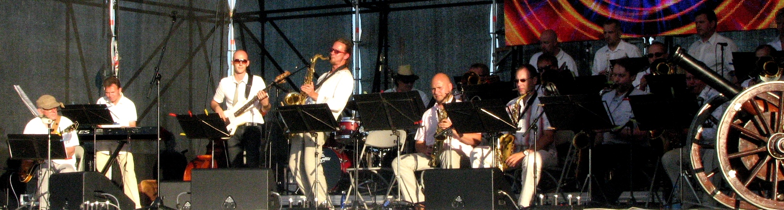 Estonian Dream Big Band performing in Tallinn's Maritime Days